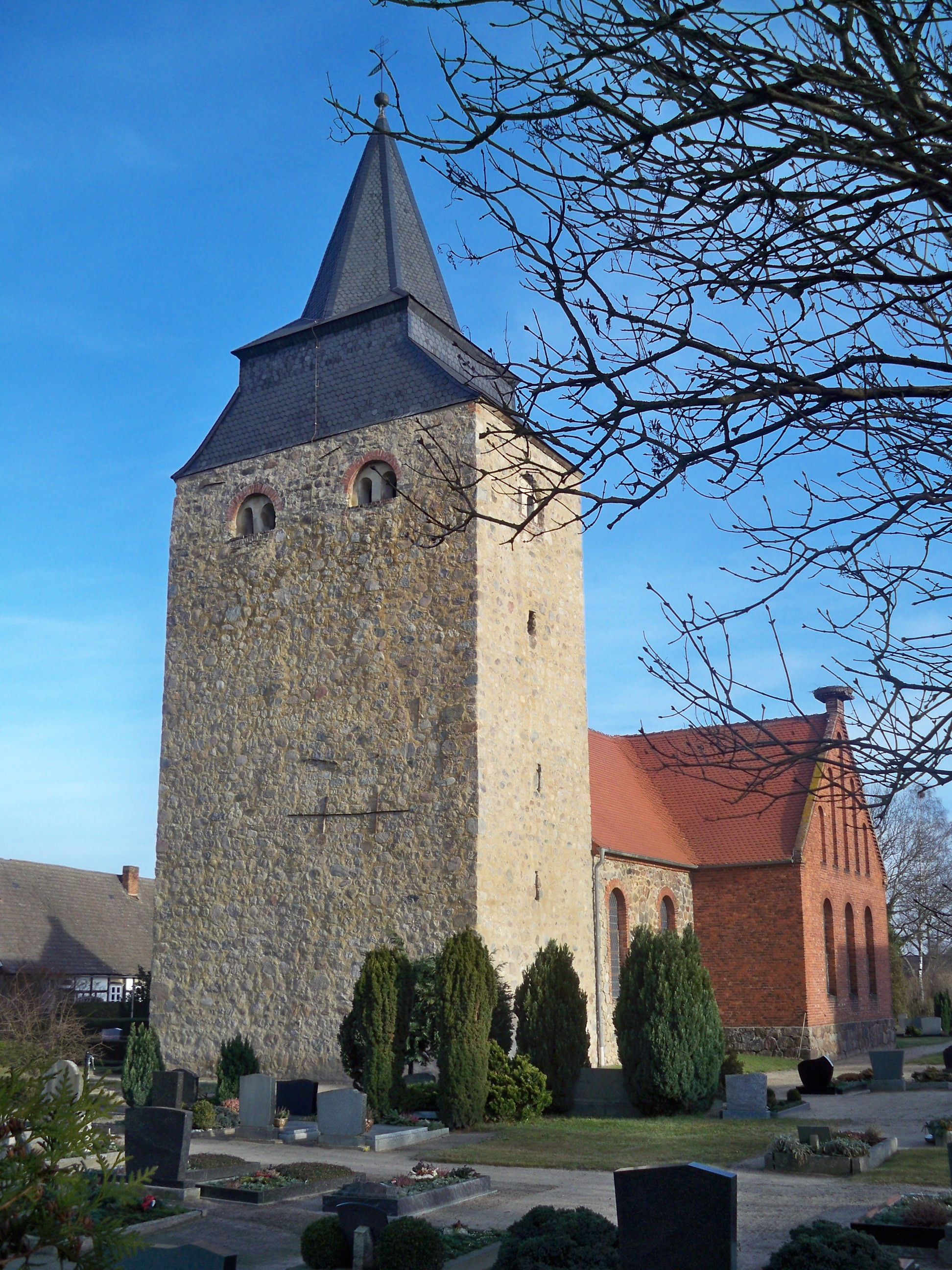 Rohrberg, Saxony-Anhalt, village church, from southwest